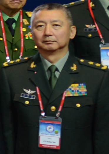 Lieutenant General You Haitao, Vice Commander of the Chinese People's Liberation Army Ground Force.